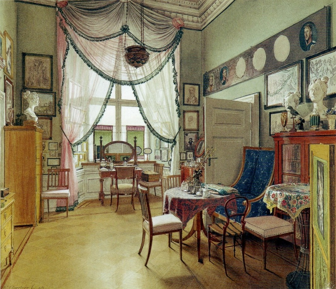 A so called "Zimmerbild" (chamber painting). Berlin, Germany. Early Victorian period.